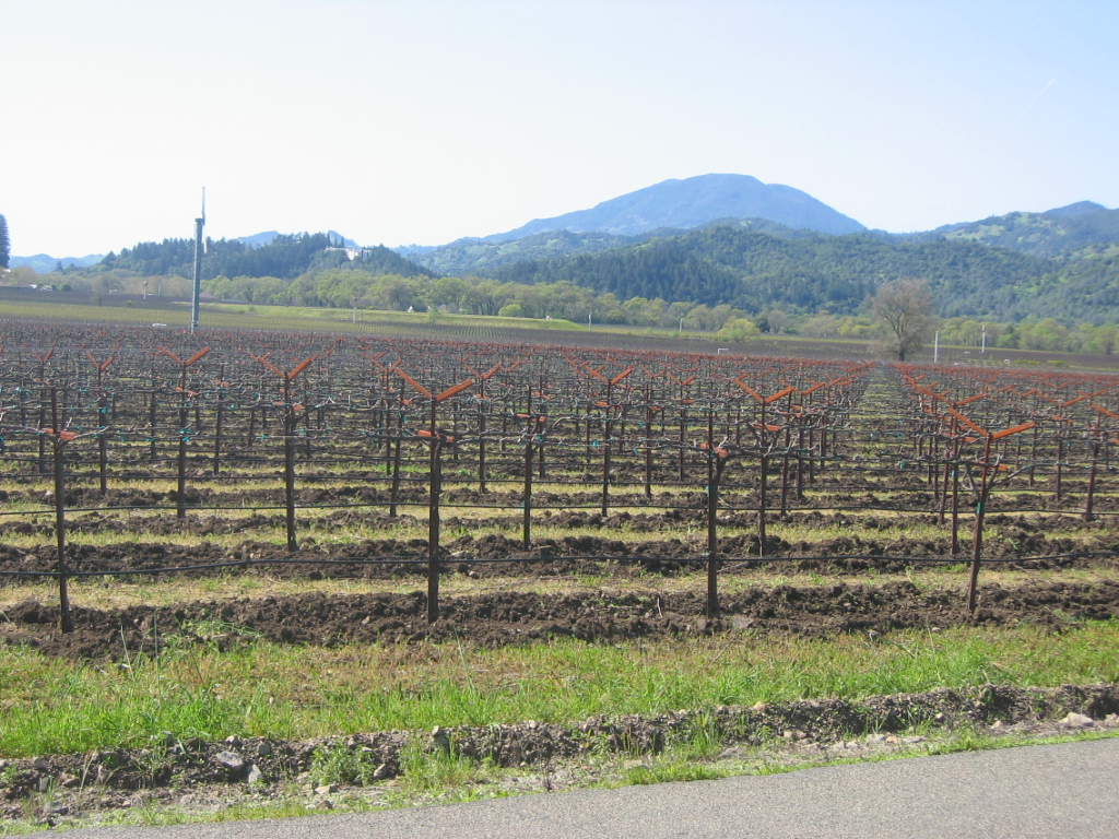 Napa Valley, California